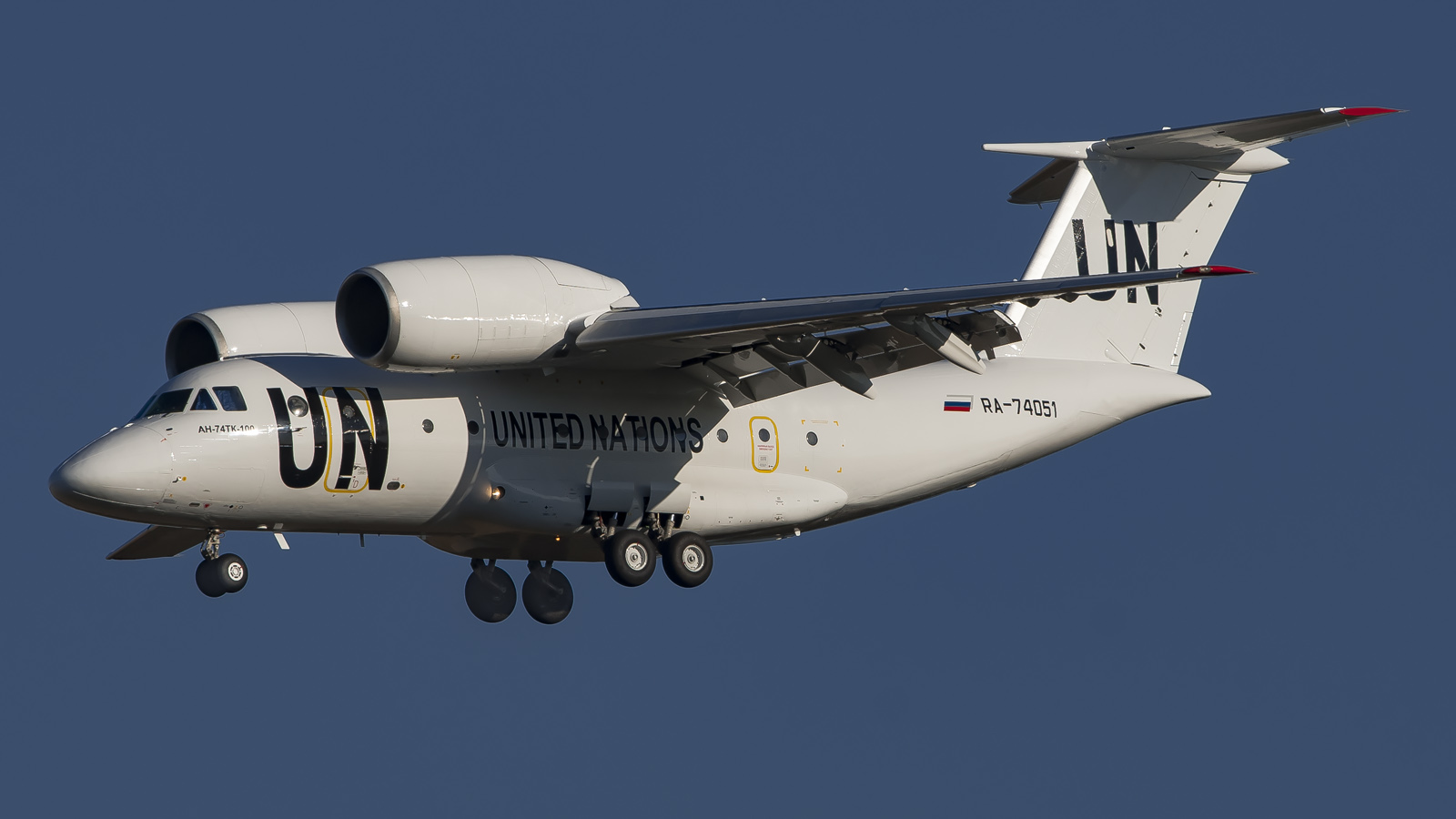 RA-74051 Antonov 74TK-100 UTair Cargo - United Nations livery VKO | UUWW